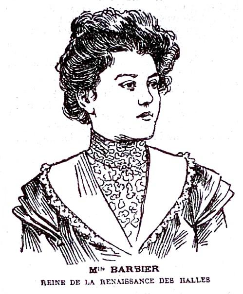 Eugénie Barbier, Queen of the Renaissance des Halles society 1900